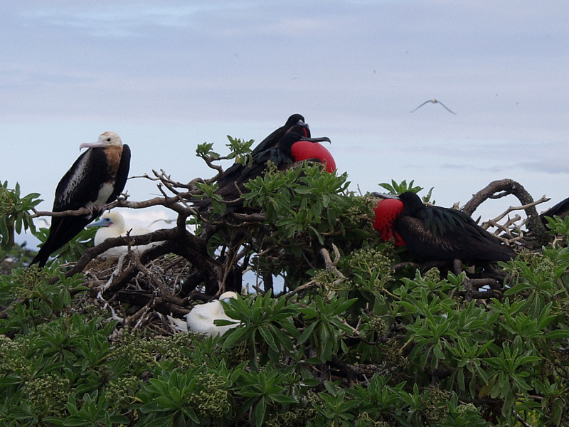 Frigate birds on Eastern Island at Midway Atoll, Pacific Ocean